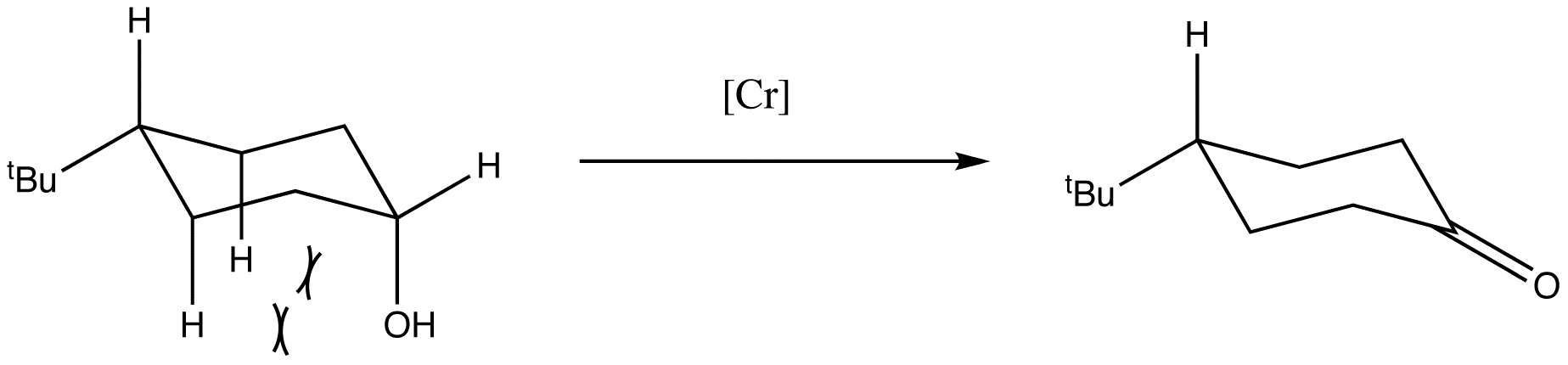 Figure for cis 4-tert butyl cyclohexanol chromium oxidation